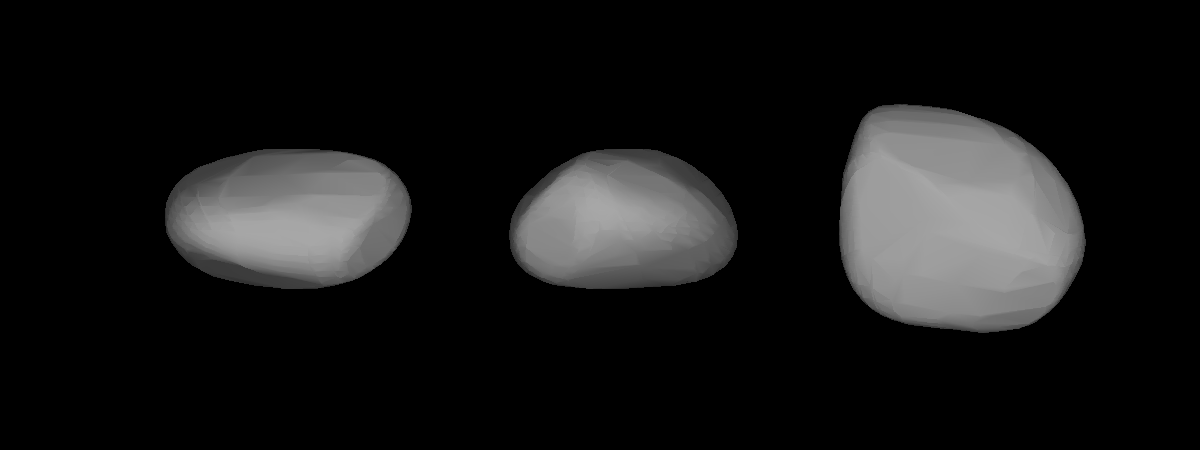 A three-dimensional model of 675 Ludmilla that was computed using light curve inversion techniques.